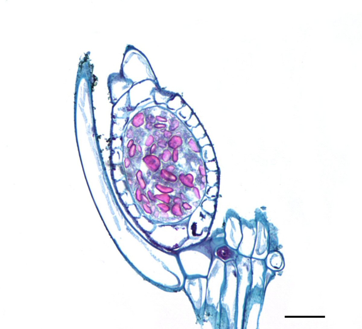 Photomicrograph of a Chara oogonium. Scale=0.2mm.